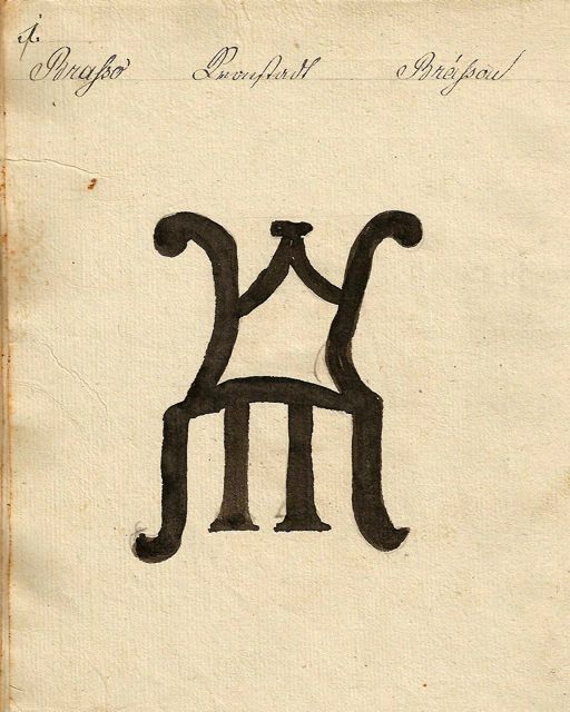 Cattle brand of Kronstadt/Braşov/Brassó